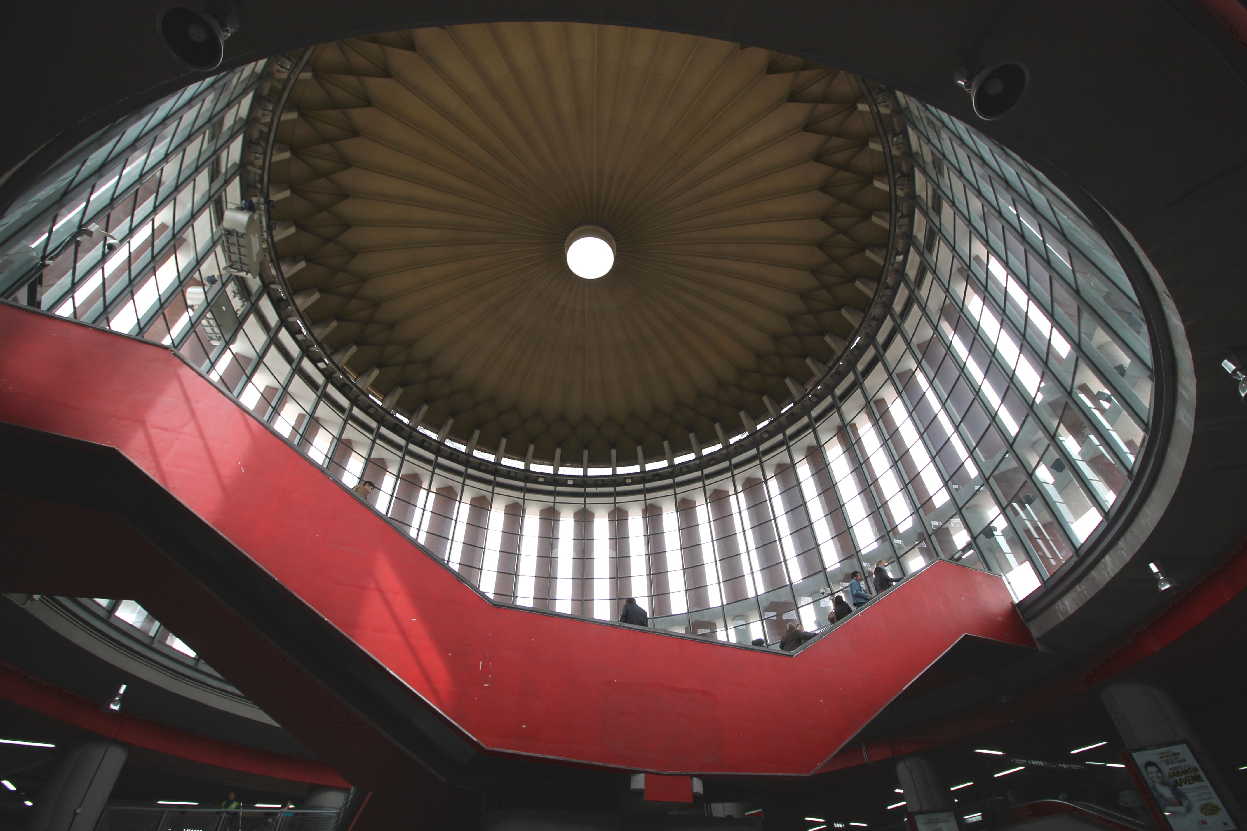 One of the entrances of the Atocha railway station in Madrid (Spain). Part of the extension designed by architect Rafael Moneo.